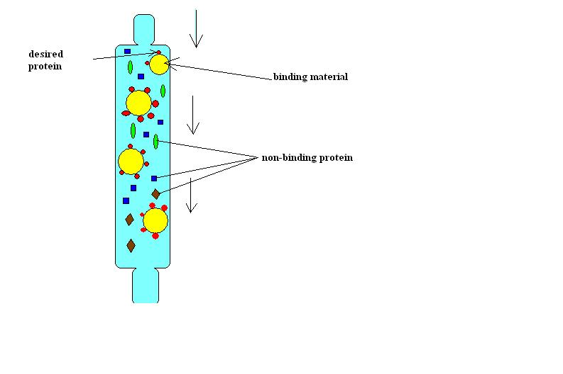 Affinity chromatography technique